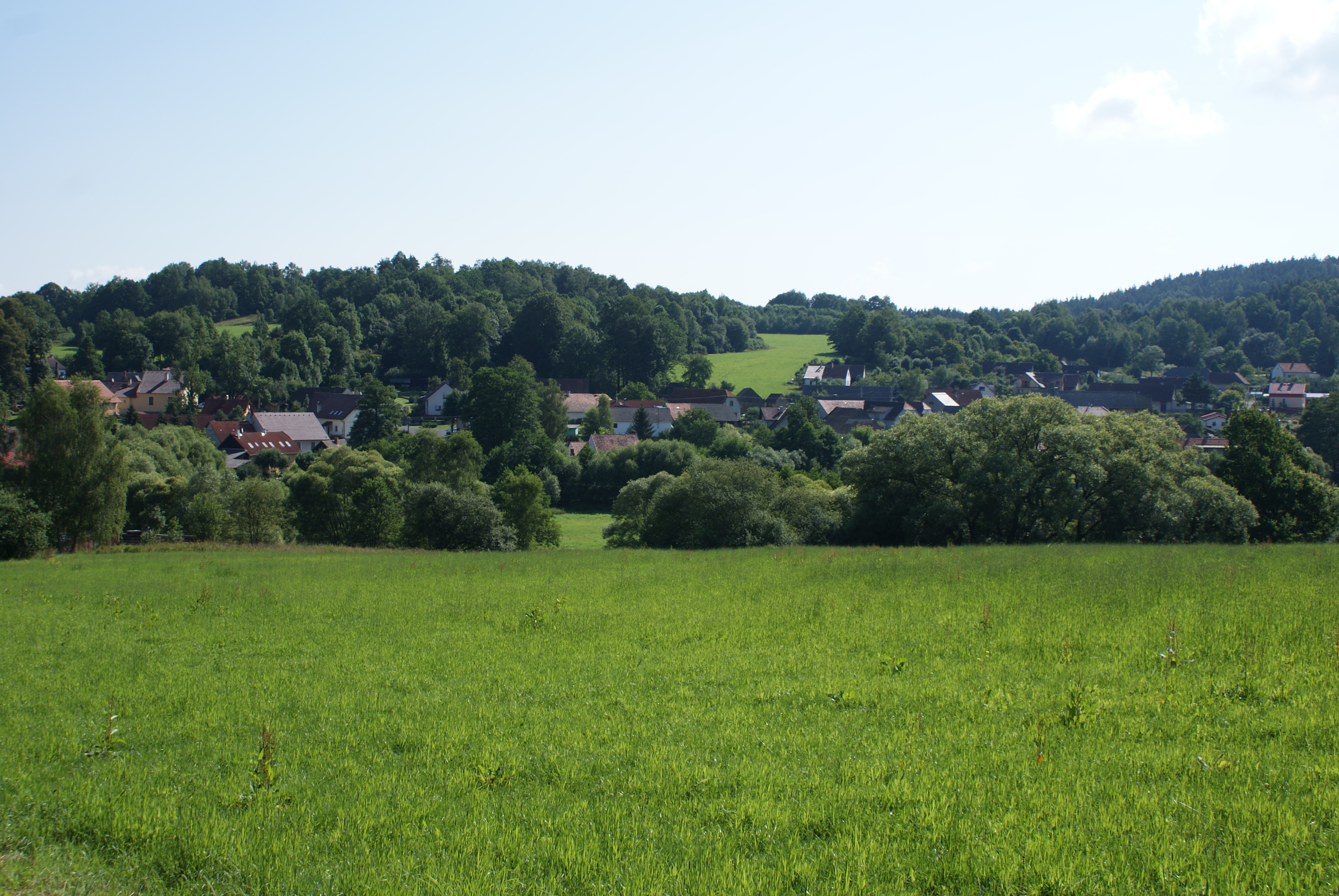 Mlýnské Struhadlo village in Klatovy district, Czech Republic, general view.